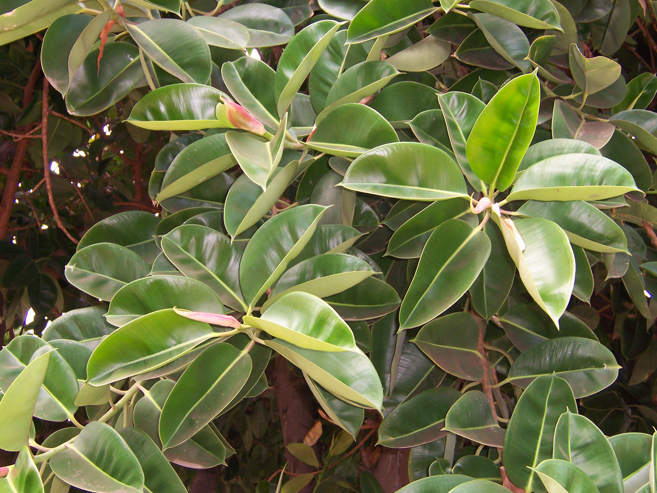 leaves of Ficus elastica (photo taken on Réunion island)